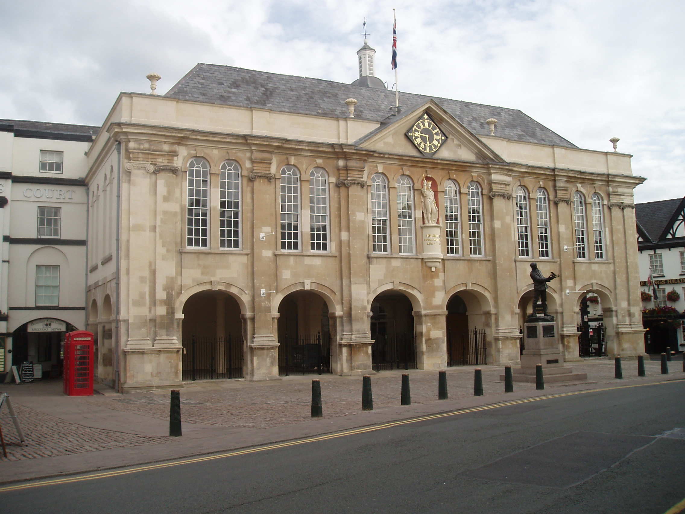 Shire Hall Monmouth following £4.5 million restoration project 2010